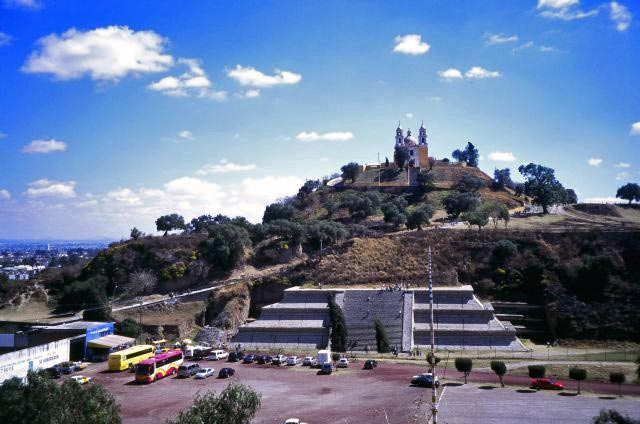 Great Pyramid of Cholula appears to be a natural hill surmounted by a church. This is the Iglesia de Nuestra Señora de los Remedios (Church of Our Lady of the Remedies), also known as the Santuario de la Virgen de los Remedios (Sanctuary of the Virgin of the Remedies), Cholula, Puebla, Mexico